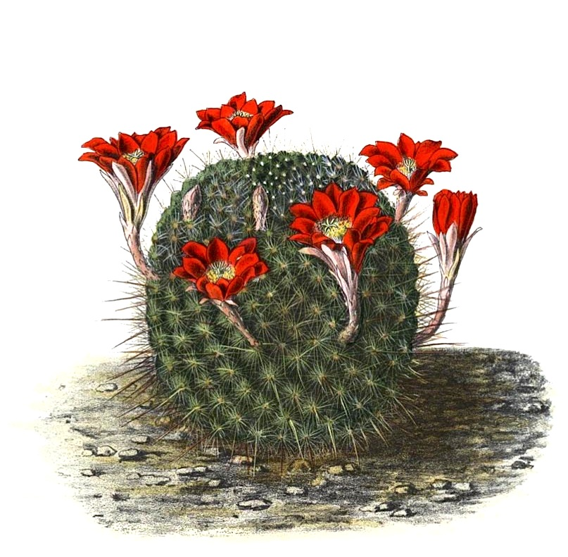 Rebutia fiebrigii